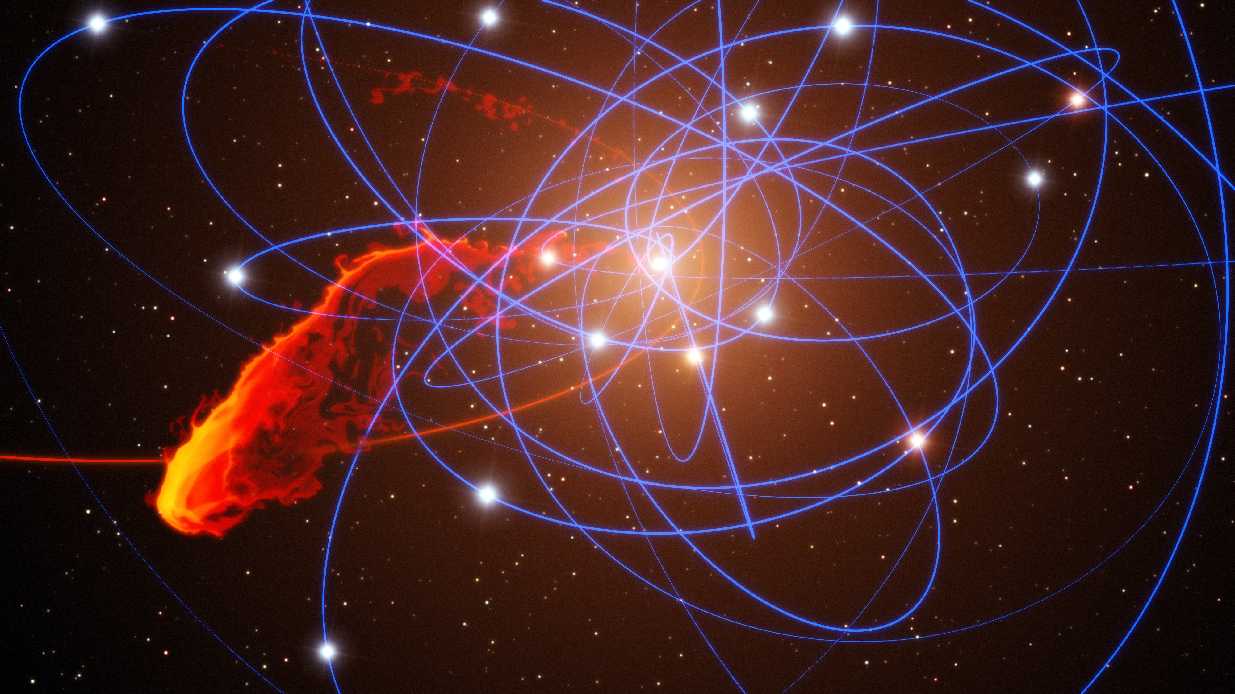 This view shows a simulation of how a gas cloud that has been observed approaching the supermassive black hole at the centre of the galaxy may break apart over the next few years. This is the first time ever that the approach of such a doomed cloud to a supermassive black hole has been observed and it is expected to break up completely during 2013. The remains of the gas cloud are shown in red and yellow, with the cloud's orbit marked in red. The stars orbiting the black hole are also shown along with blue lines marking their orbits. This view simulates the expected positions of the stars and gas cloud in the year 2021.